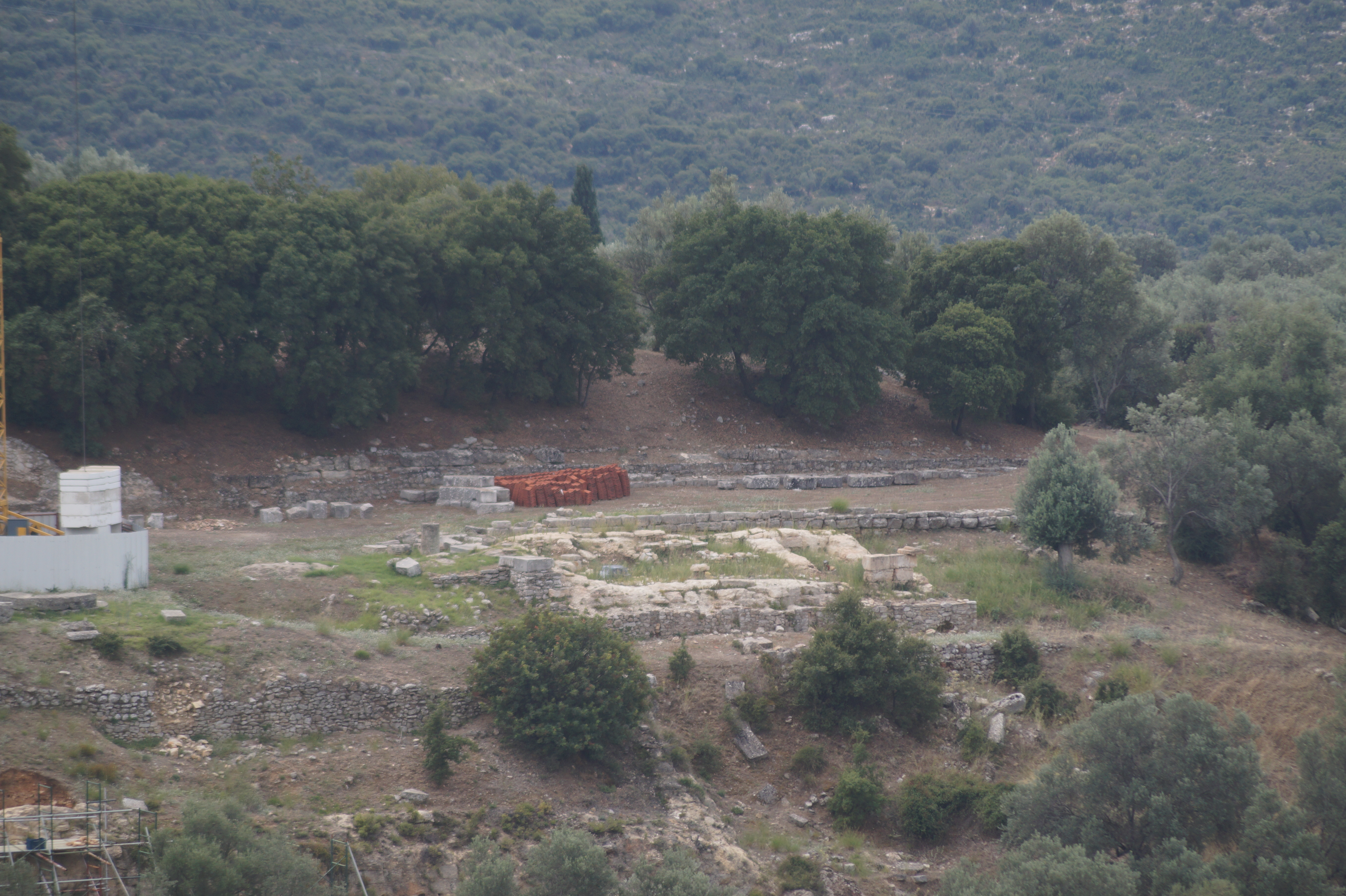 Epidauros, Argolis, Greece: View from the western slope of Mount Titthion on the Sanctuary of Apollo Maleatas. In the foreground there are the ruins of the classical temple. Behind there is the roman temple like building. On the hill behind the trees there is the early helladic site.